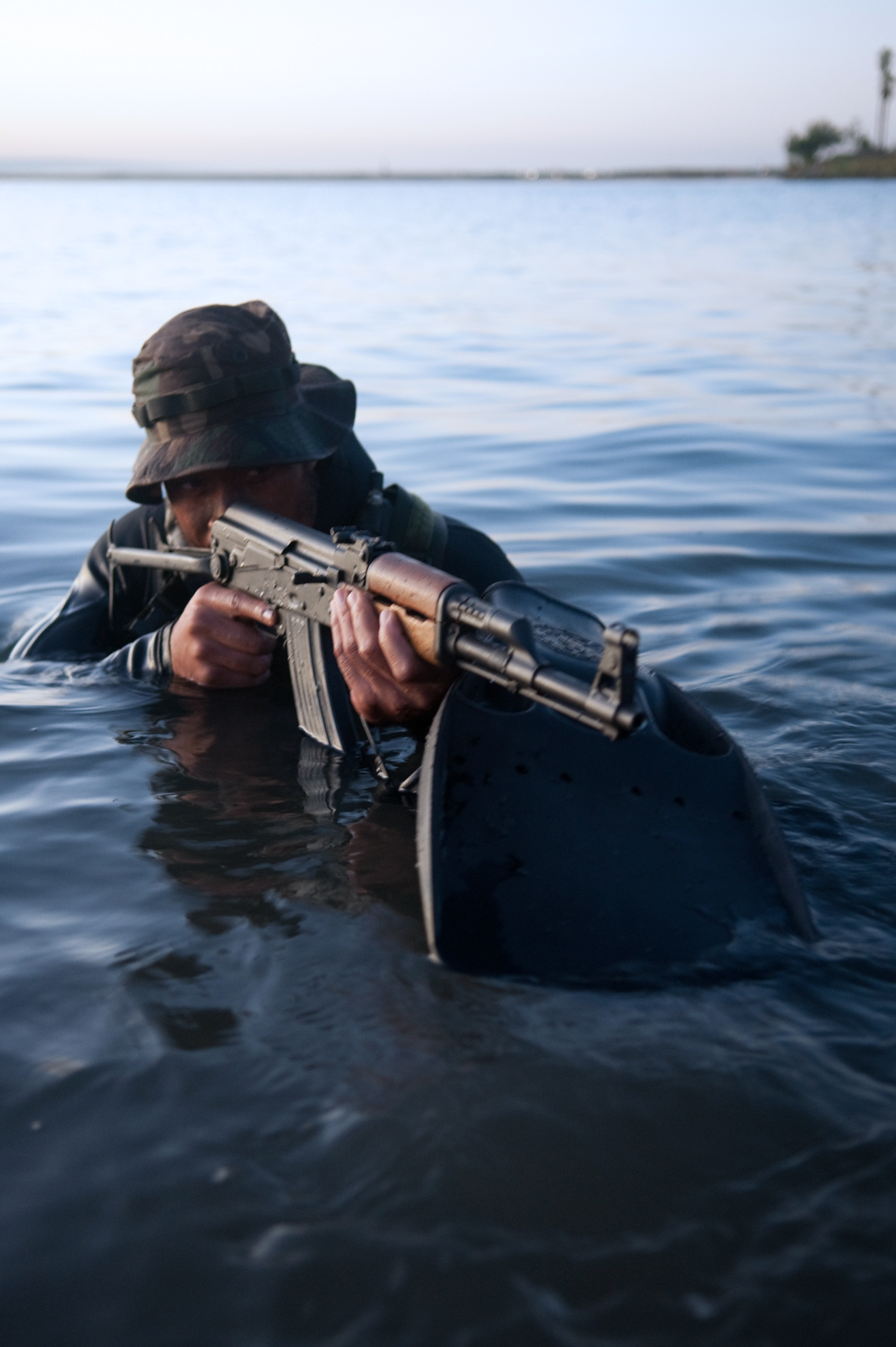 Promitinal picture: Seal with AK-47 in the water.